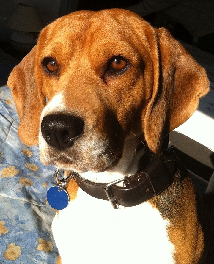 My dog.